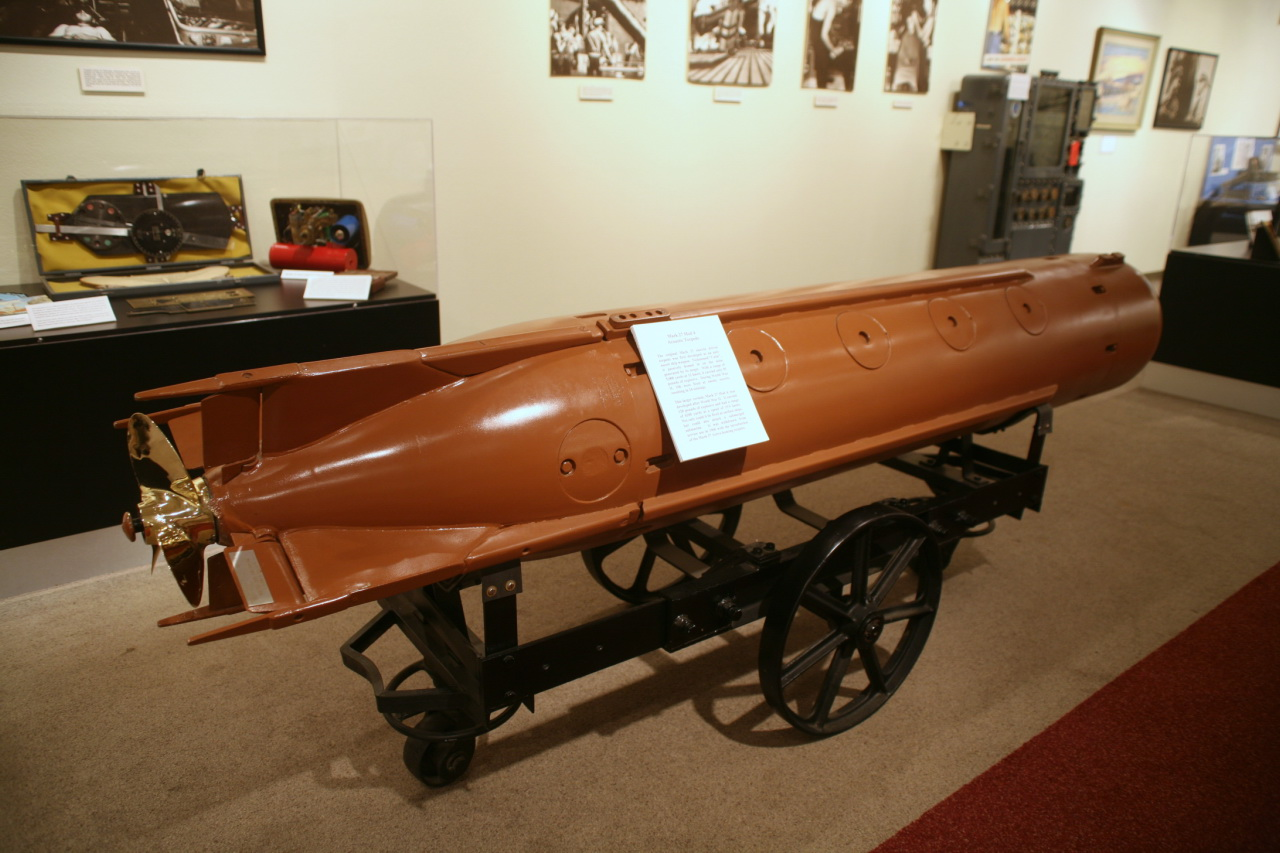 A variation of the airborne Mark 24 adapted for submarine use. It was a passive homer intended for self-defense against ASW escorts. Used only against the Japanese. A larger version, the Mark 27 Mod 4, was capable of 15.9 knots and was in service from 1946 to 1960. See also Mark 27 torpedo